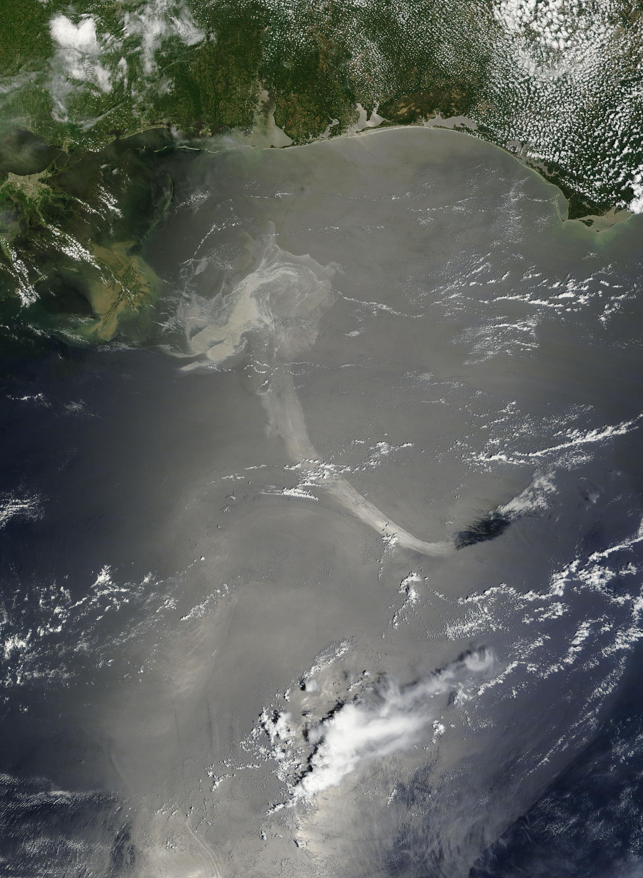 Deepwater Horizon oil spill imagined in true color on May 17 by MODIS instrument aboard NASA's TERRA satellite.